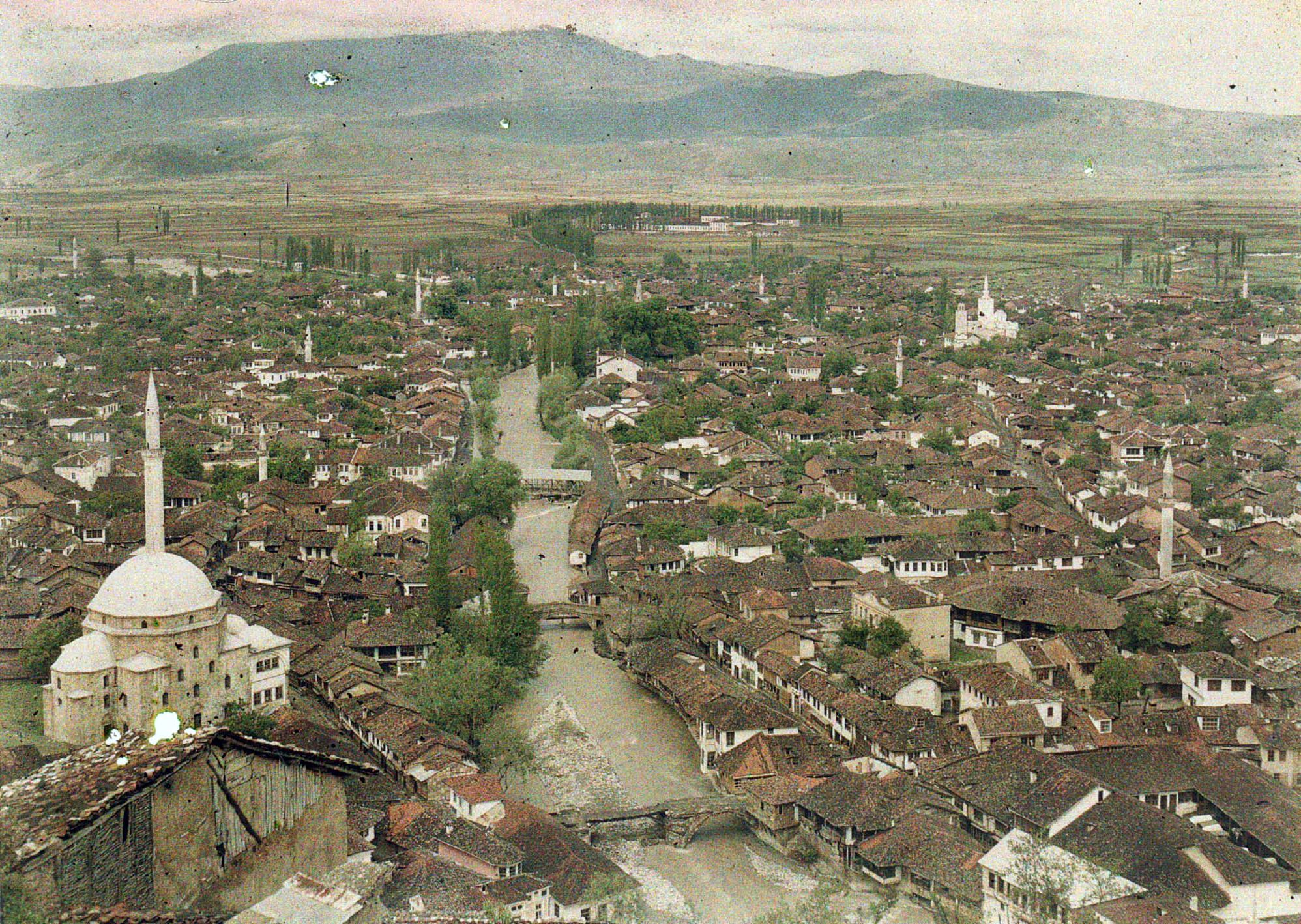 Panorama of the Bistrica river, with Sinan Pasha Mosque to the left, Prizren